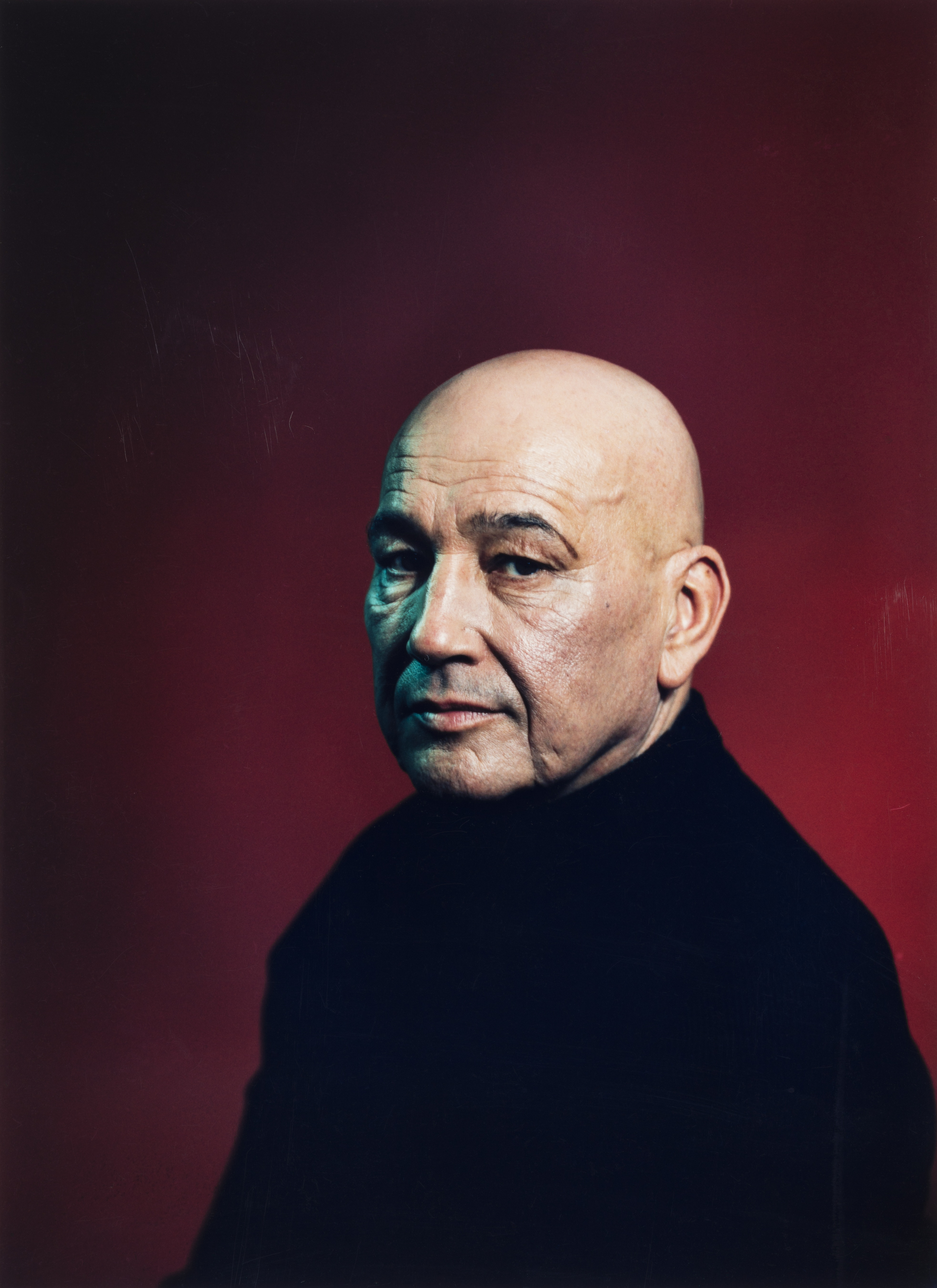 Photograph of the Finnish film director Teuvo Tulio (1912–2000).